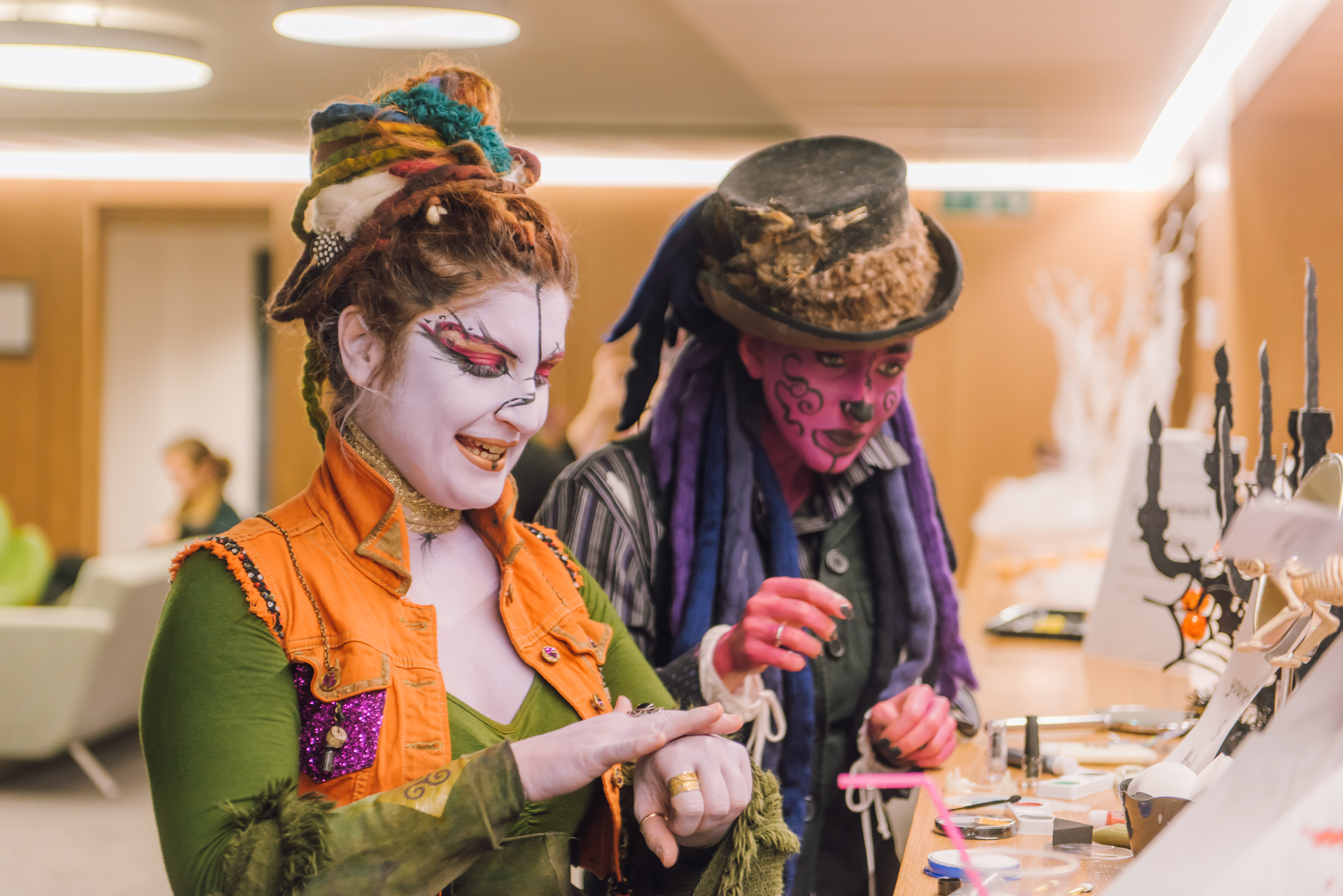 Samhuinn is a Gaelic festival marking the end of the harvest season and the beginning of winter or the "darker half" of the year. Traditionally, it is celebrated from the very beginning of one Celtic day to its end, or in the modern calendar, from sunset on 31 October to sunset on 1 November. Samhuinn was seen as a liminal time, when the boundary between this world and the Otherworld could more easily be crossed. This meant the Aos Sí, the 'spirits' or 'fairies', could more easily come into our world. Offerings of food and drink were left outside for them. The souls of the dead were also thought to revisit their homes seeking hospitality. For Samhuinn 2016, the afternoon's editathon at the University of Edinburgh focused on improving the quality of Wikipedia articles relating to notable lives unearthed from newspaper obituary articles.